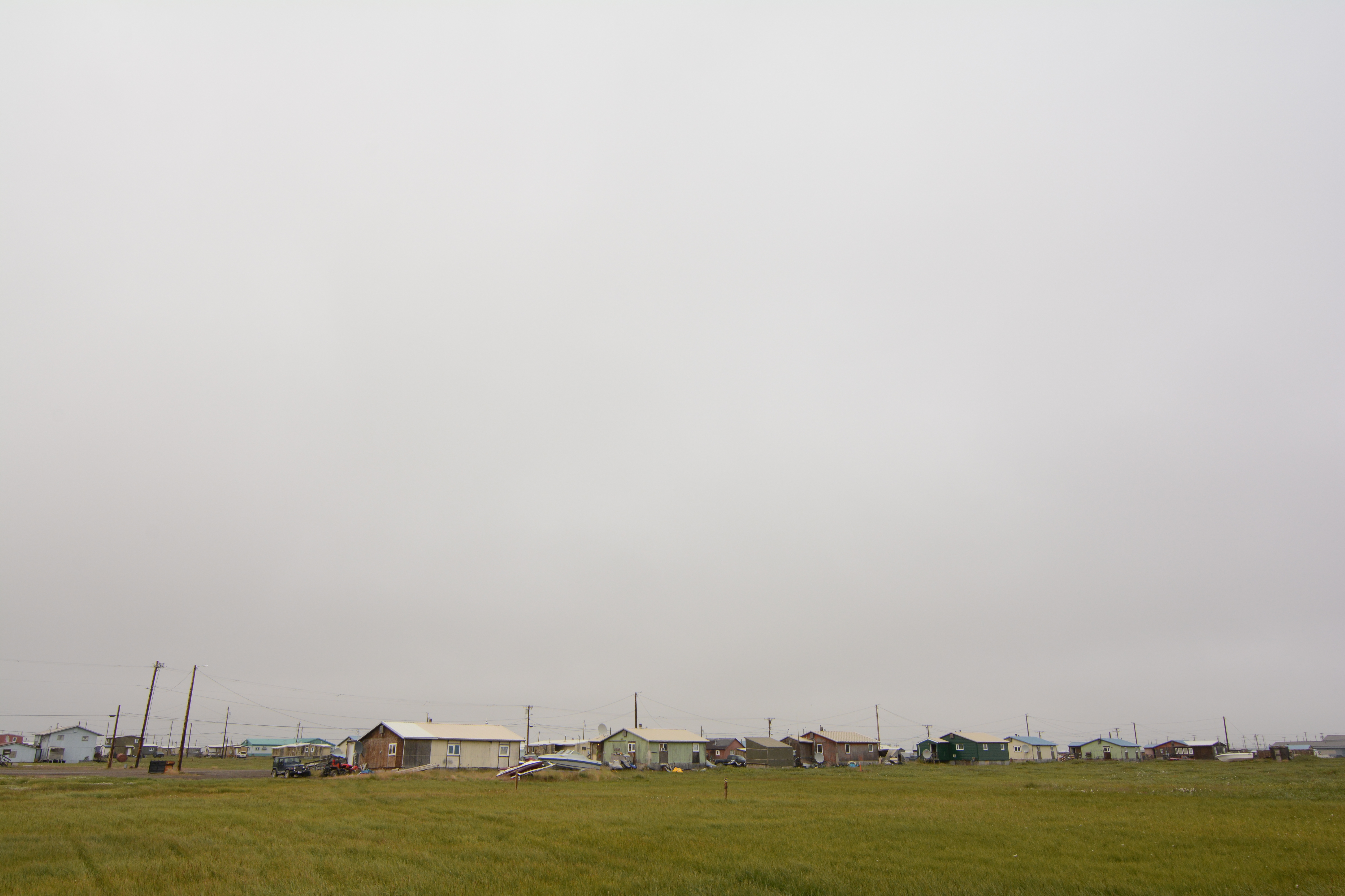 The small village of Nuiqsut, Alaska. The village is only accessible by boat or by air, and has a population in the low thousands. (NOTE: Eh, "low thousands"? There are approximately 400–500 people living there.)